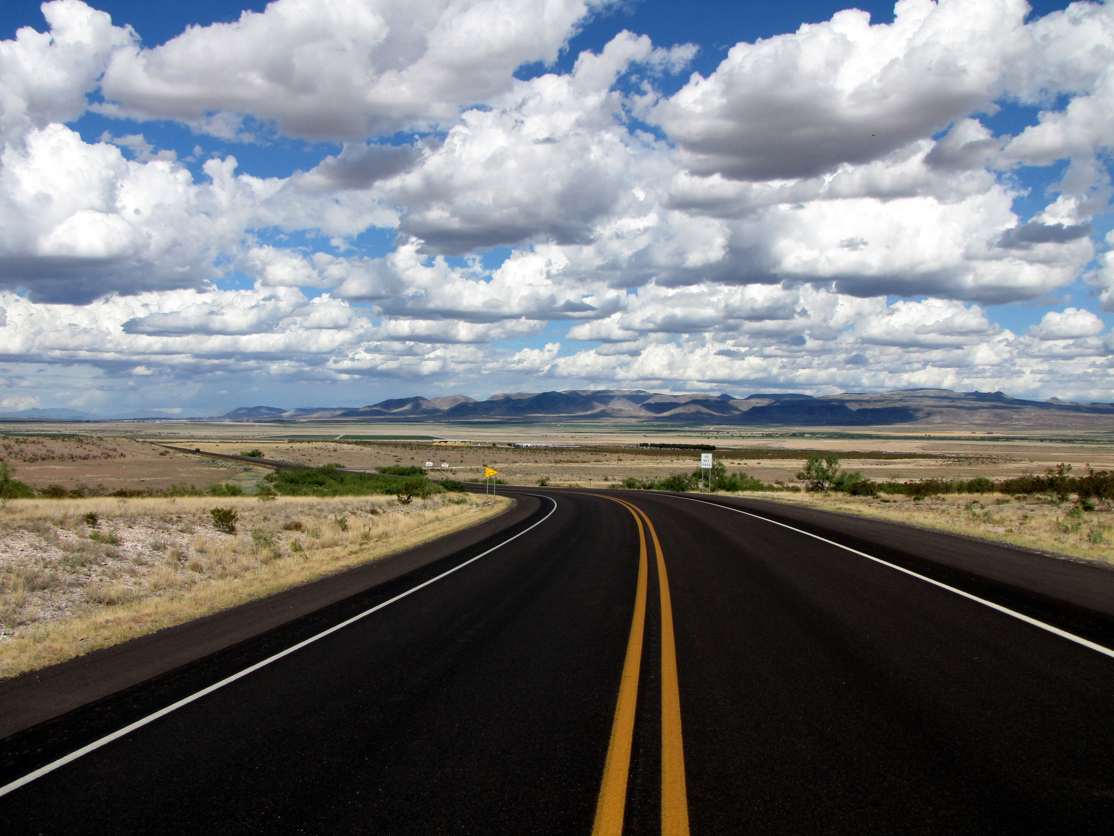 Highway outside of Las Cruces, New Mexico